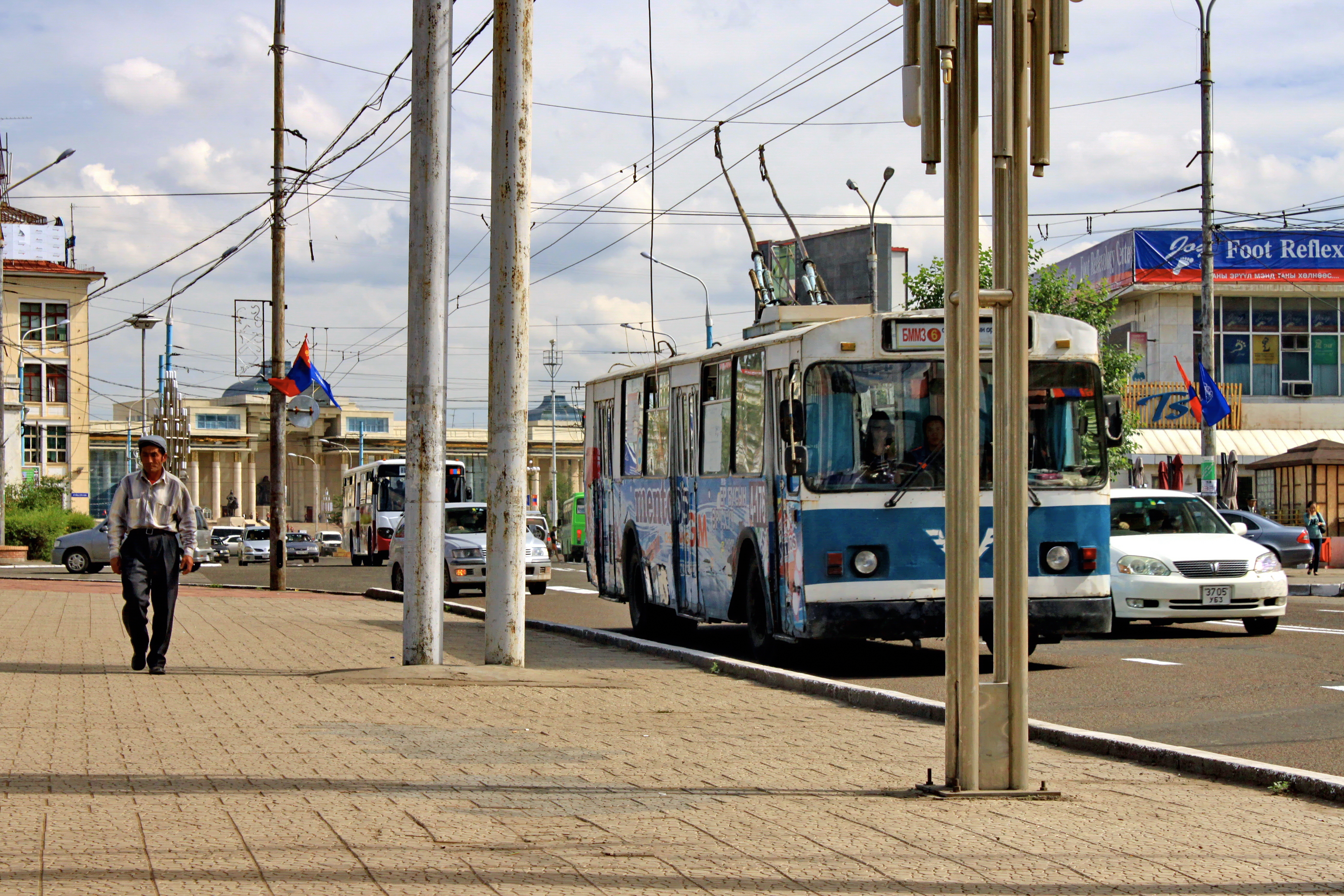 Street in the city center. Ulan Bator, Mongolia.